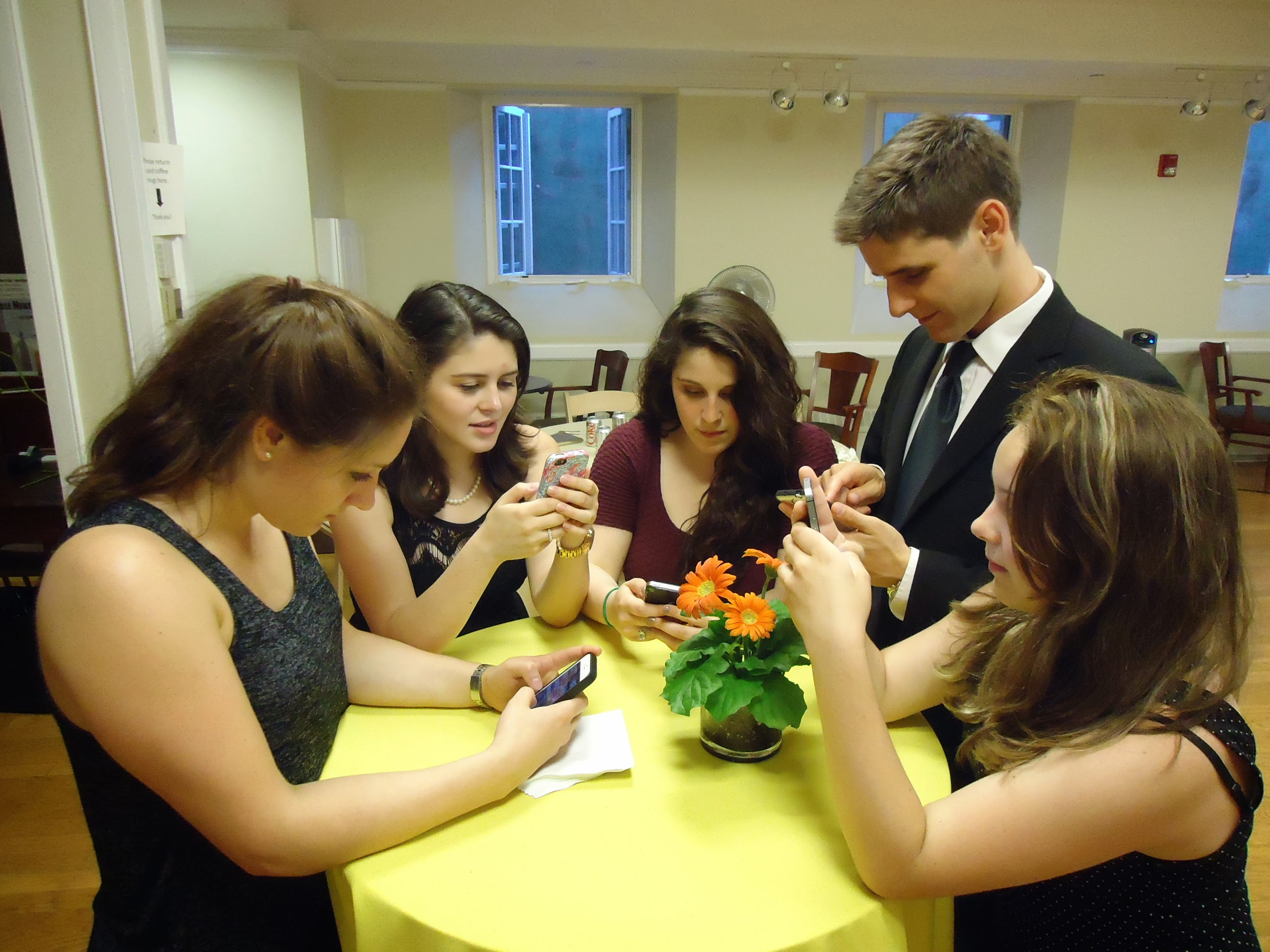 Young people using their smartphones at a party. The ever-present use of smartphones for multiple purposes has led some writers to describe young people as the "thumb tribe" or "thumb generation".